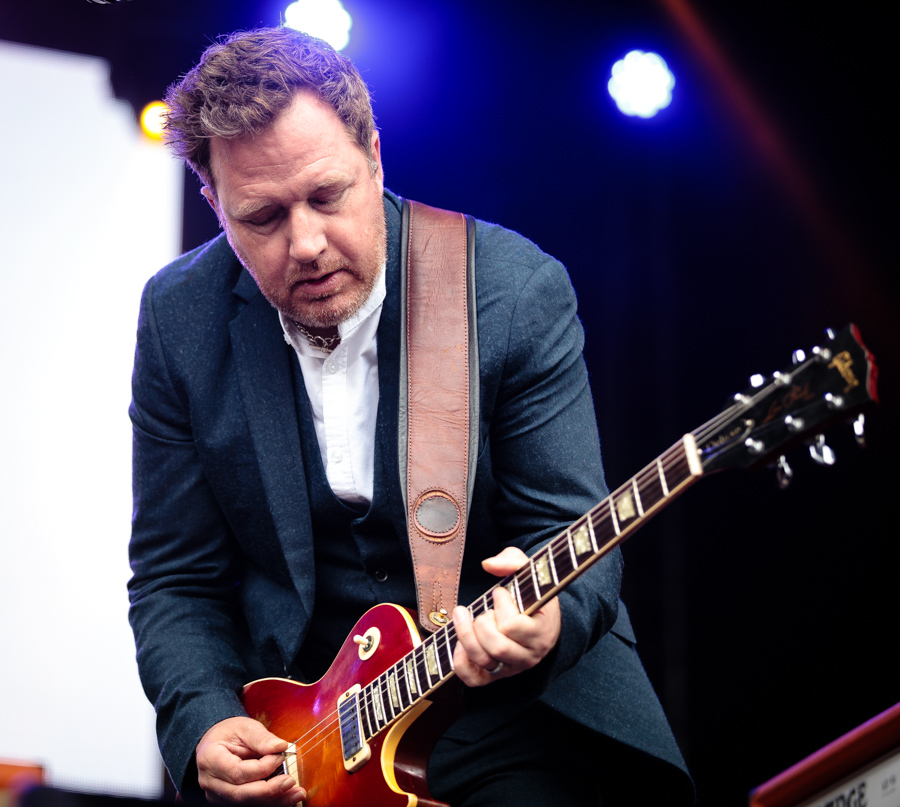 Andy Dunlop in a concert with Travis at the Vigeland stage in the Vigeland Park. The concert was part of Piknik i Parken and took place on 17. June 2018 in Oslo. Lineup:Fran Healy (vocal and rhytm guitar)Dougie Payne (bass guitar)Andy Dunlop (guitar)Neil Primrose (drums)Unidentified (keyboard)